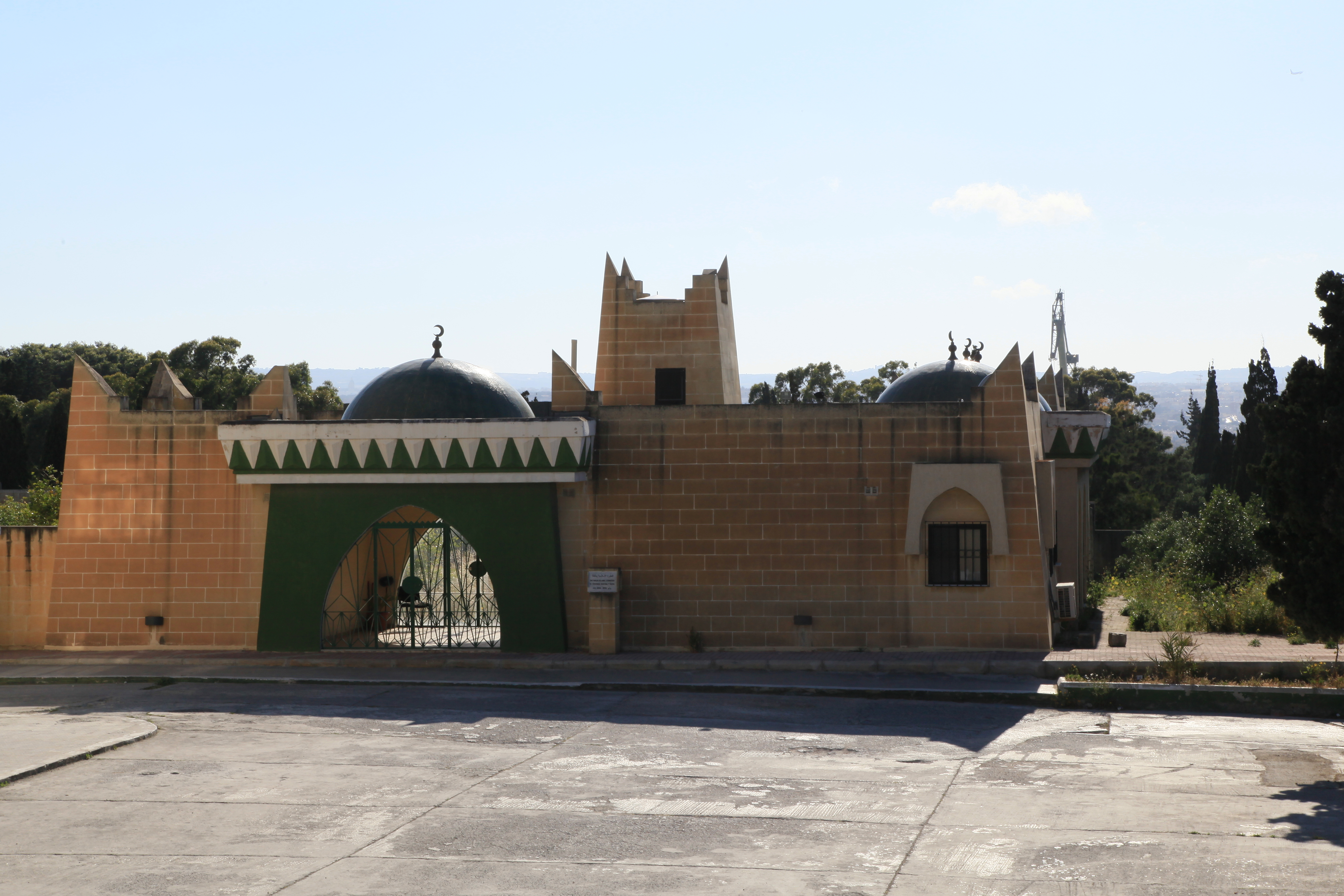 Mariam Al-Batool School at Triq Kordin in Paola, Malta